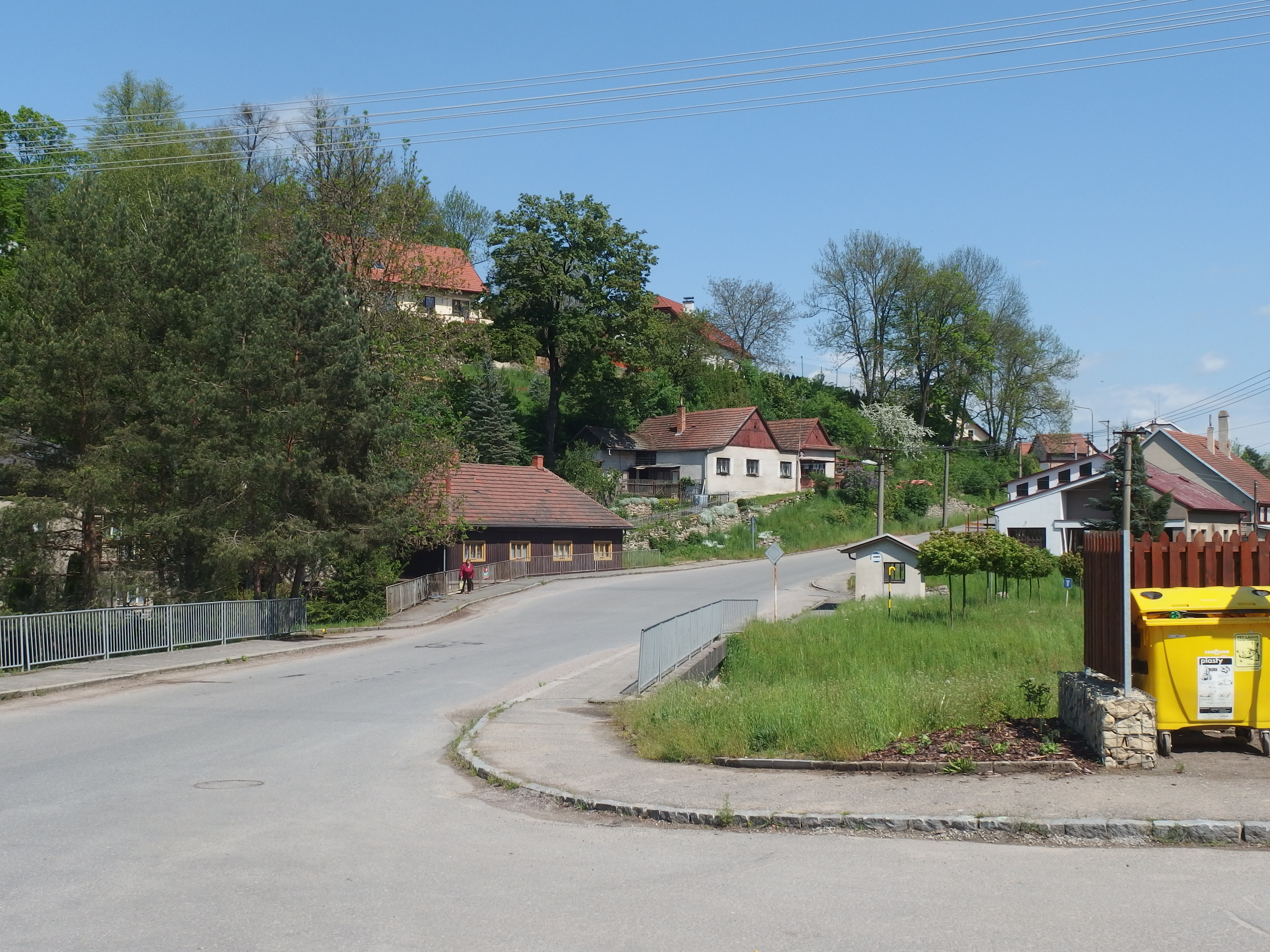 Dolní Újezd, Svitavy District, Czech Republic.